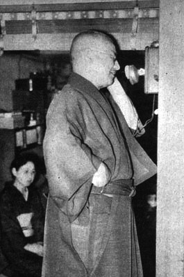 Rt. General Nobuyuki Abe (1875–1953) receiving a call informing that he was chosen to form a new government.